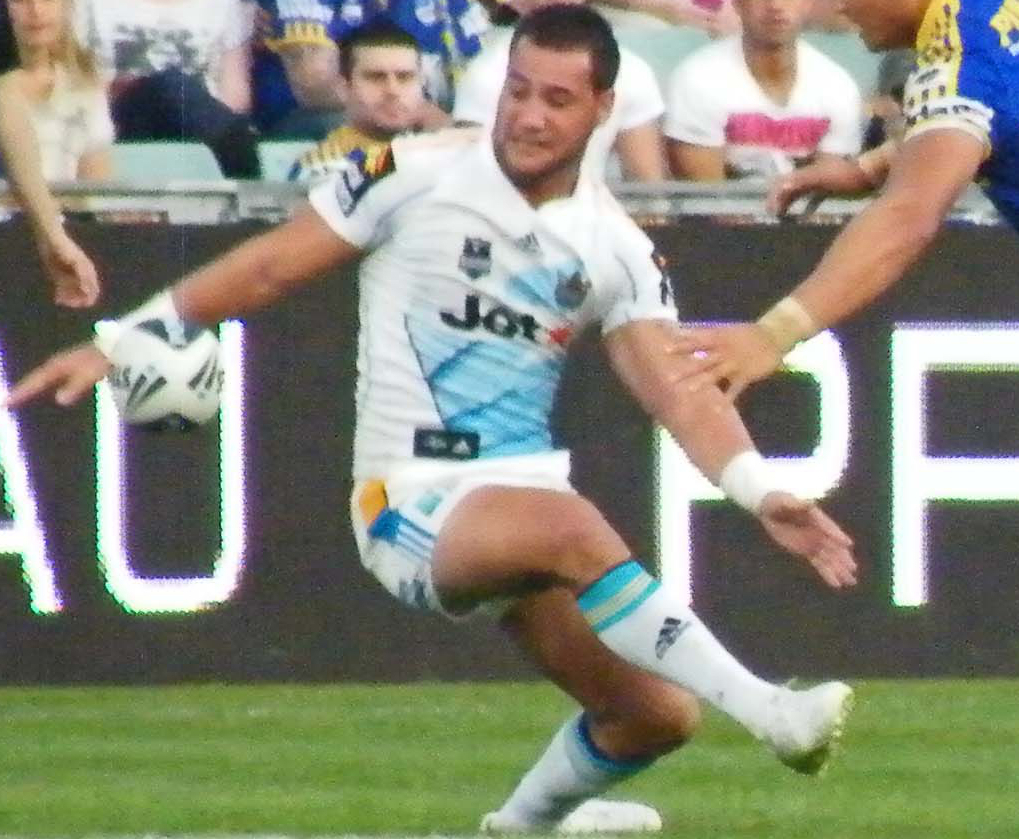 Bodene Thompson